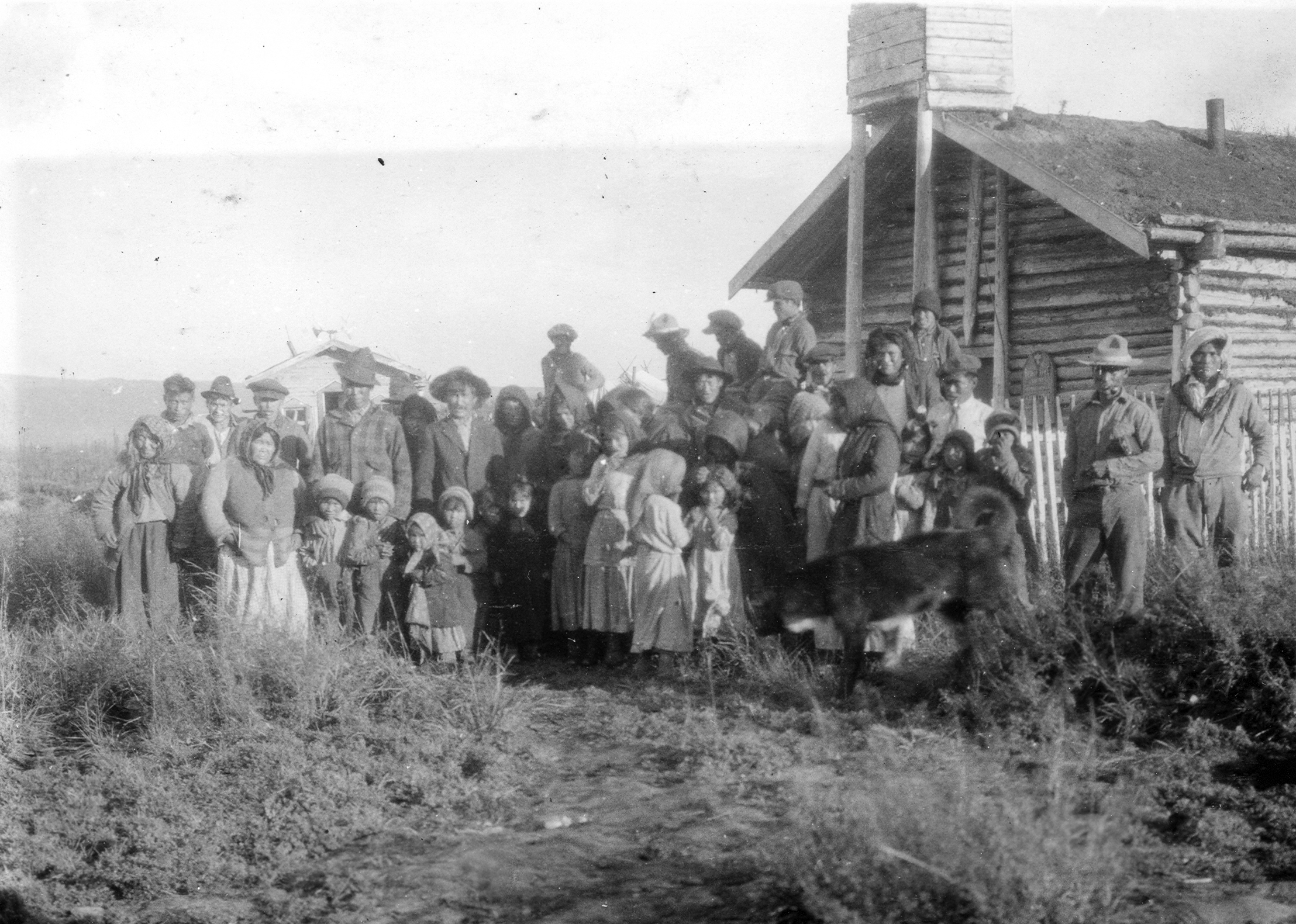 Natives, in front of the church at Arctic Village. Alaska. July 19, 1926.